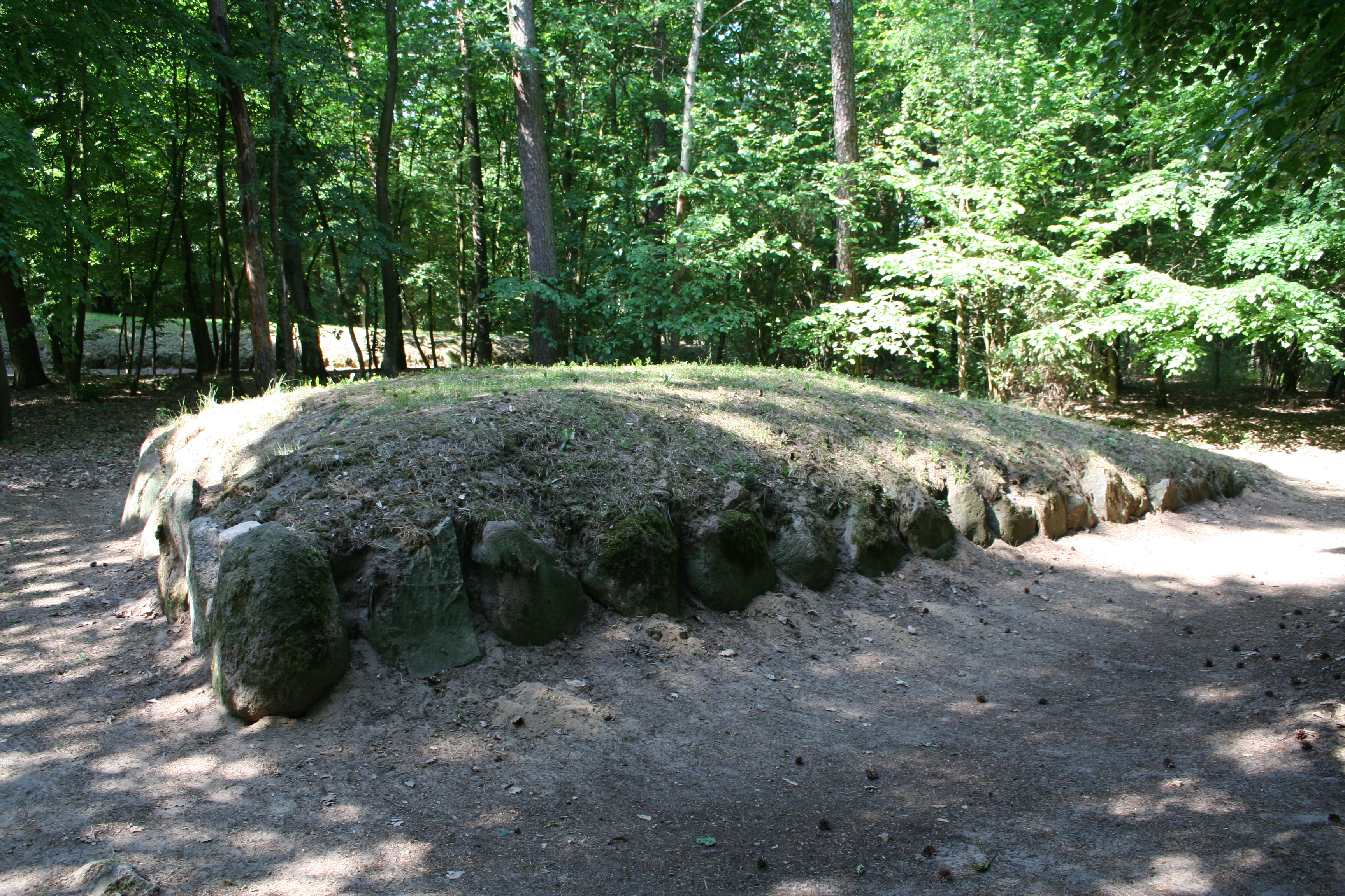 Earthen Long Barrow Wietrzychowice 4